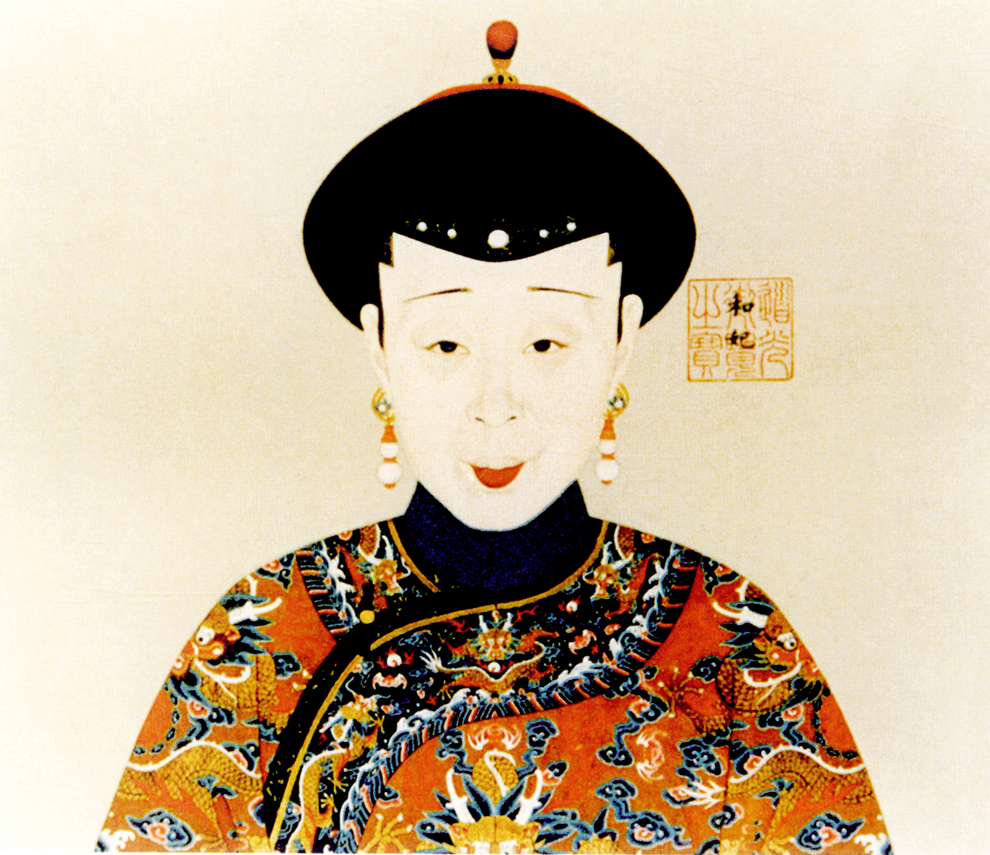 道光和妃肖像